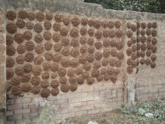 Photo of saucer shaped Ghunte (dungcake) being dried, Rajshahi, Bangladesh